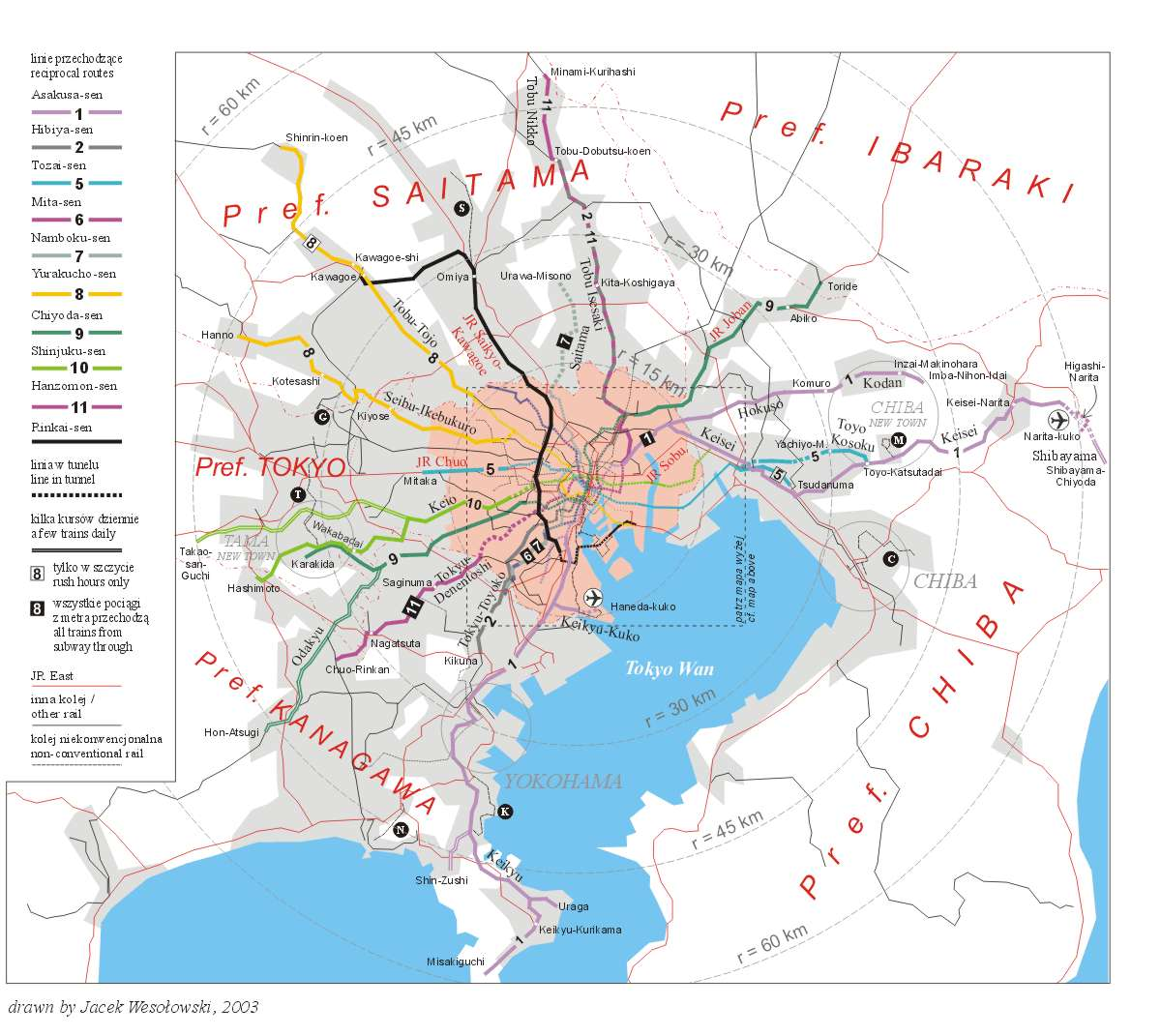 Tokyo Subway. Map showing outer lines served by subway trains running reciprocally to regional railways, with distances